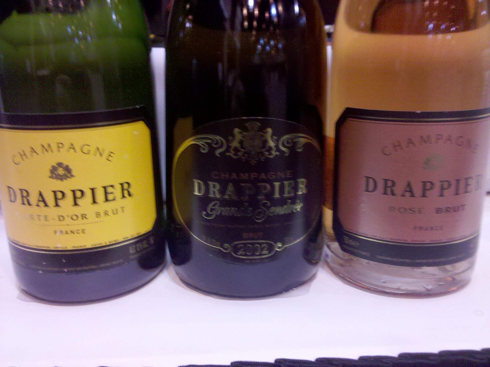 Champagnes from the French producer Drappier